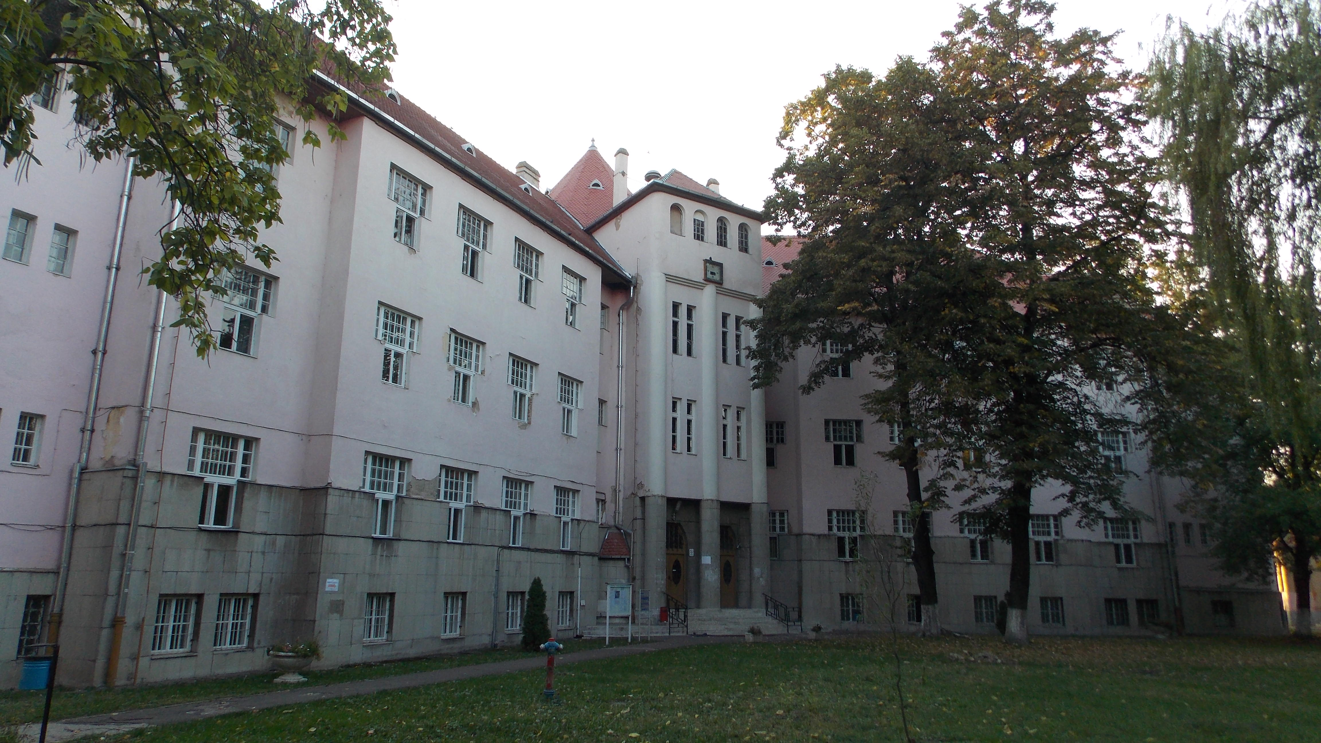 University of Oradea - Buliding B